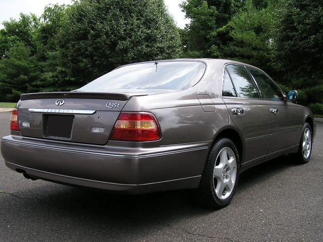 2000 Infiniti Q45t Photographed in Philadelphia, PA.